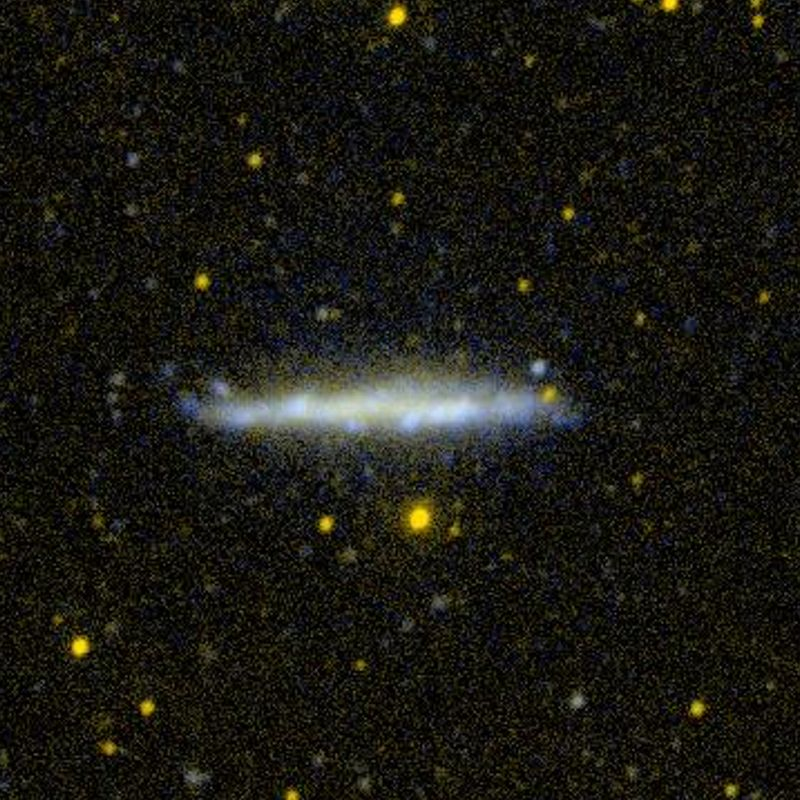 NGC 7064 galaxy by GALEX